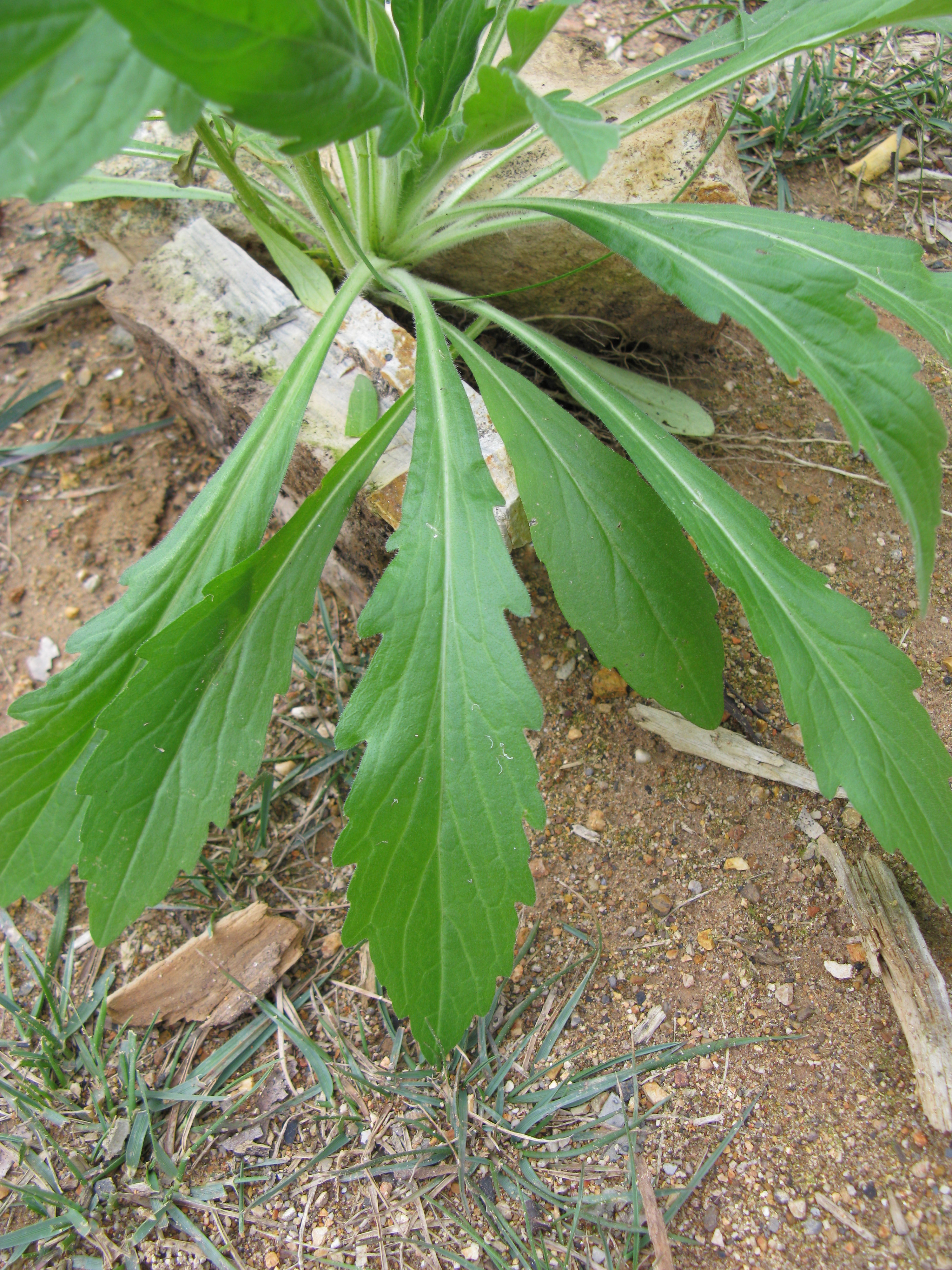 Introduced, warm-season, annual, erect, yellowish green herb. Stems are covered in long spreading hairs and grow to 2 m tall. Leaves are bristly and form a rosette when young. Lower leaves are toothed and upper leaves are entire. Flowerheads are panicles with numerous creamy heads (4-6 mm long) that have pale and densely hairy bracts. Heads become white puff balls at maturity. Flowering is mostly from summer to late autumn. A native of North America, it is a common weed of disturbed pastures, roadsides, cultivation and wasteland. A minor weed in pasture situations; it is an indicator of disturbance, low ground cover and/or weak pastures. Primary control is by maintenance of good ground cover, especially from autumn to late spring. Can be hand-pulled, but plants need to be removed to prevent seed drop. Slashing at the beginning of flower emergence will reduce seed set. If it needs to be sprayed, apply registered herbicides at the seedling to early rosette stage.